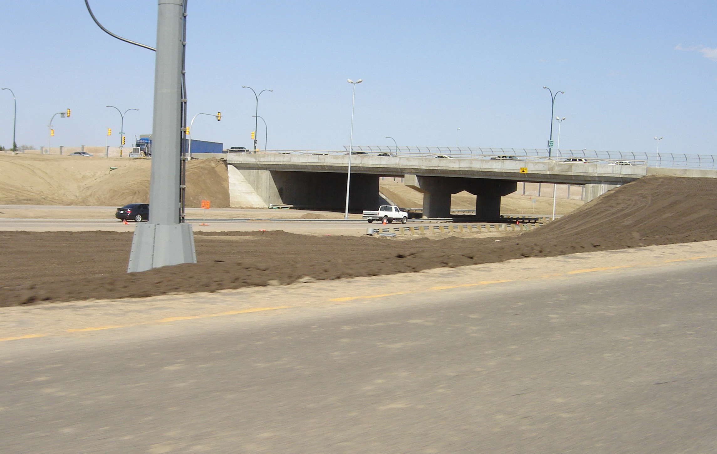 Clarence Avenue, Circle Drive interchange between Stonebridge, Saskatoon, Stonebridge and C.N. Industrial, Saskatoon subdivision to the south and Avalon and Adelaide/Churchill on the north of the intersection. Saskatoon, Saskatchewan, Canada